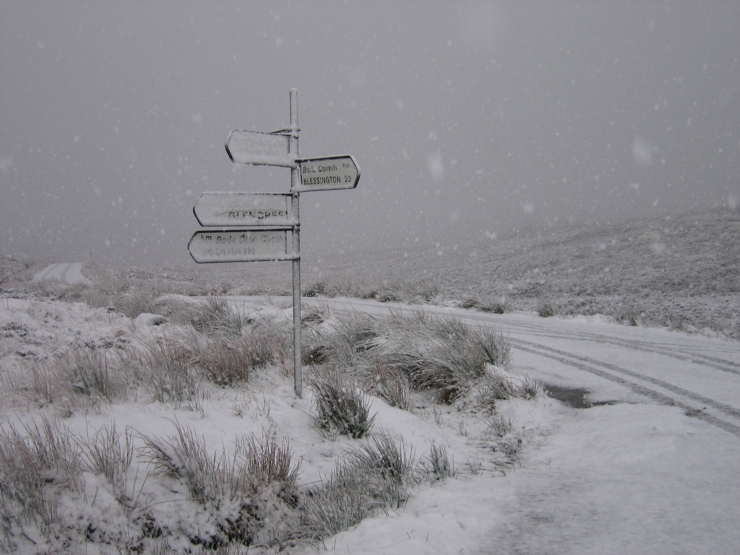 Sally Gap Sally Gap in the Wicklow Mountains at nearly 1,700 feet. This is where the "Military Road" (R115) crosses the R759. Both roads are frequently closed in winter.